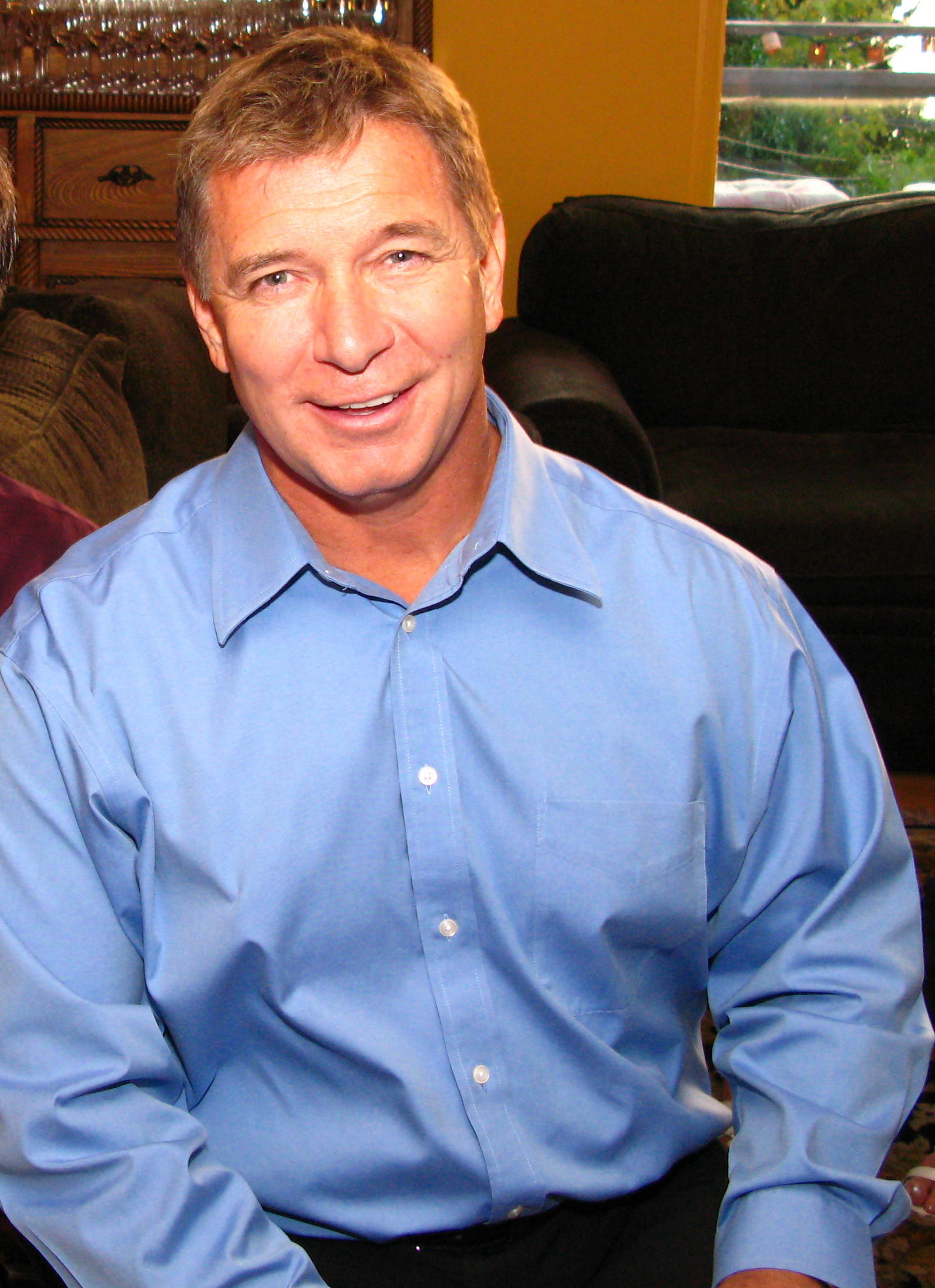 Rick Hansen, one of Canada's most respected paraplegic athletes, at a social event in West Vancouver. Rick Hansen succesfully completed the "Man in Motion" tour between 1985 to 1987, and is the CEO of the Rick Hansen Foundation. He is also a member of the Order of Canada.